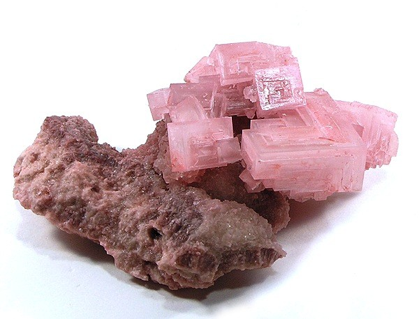 Halite, Nahcolite Locality: Searles Lake, San Bernardino County, California, USA (Locality at ) Okay, halite is salt, but for one thing, it is just as legitimate a mineral as any other, even if you CAN eat it (not this though - it contains bacteria so dont lick it!). This batch of gorgeous halite specimens was mined recently in California, and they are REALLY distinctive. Look at the amazingly fine structure of the crystals and beautiful bright pink color! But more than that, they have this wonderful contrast with a uniquely new matrix covered with minute nahcolite . Bottom line: it is just a plain stunningly pretty mineral specimen from a recent find; I bought ALL OF THEM THAT WERE AVAILABLE from the one contact who brought them to a show this year in California. NOTE that they are sensitive to humidity. 9.0 x 6.4 x 3.5cm